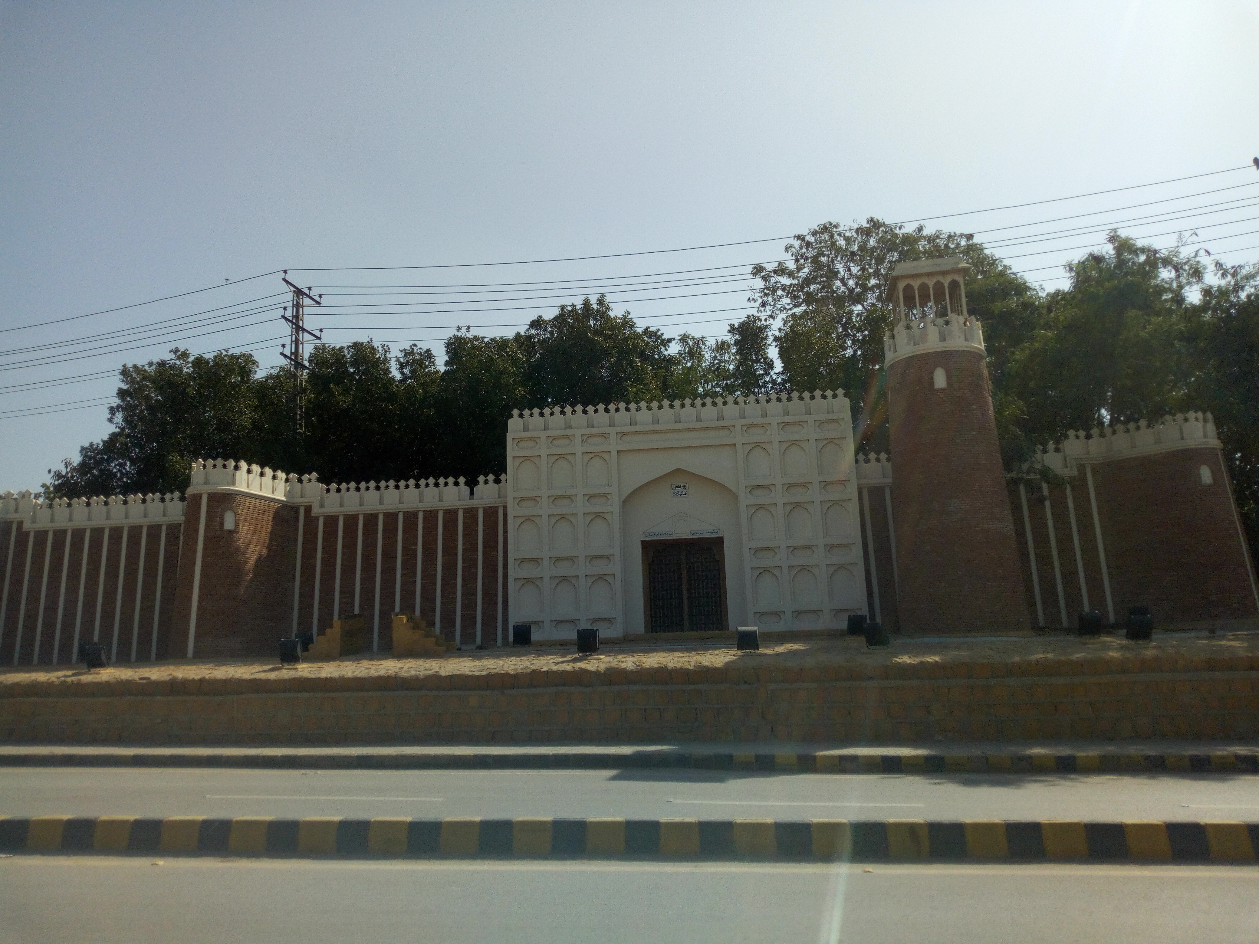 For the template used to request speedy deletion, see Template:SD سنڌي: پَڪو قلعو مانومينٽ This photo has been taken in the country: Pakistan